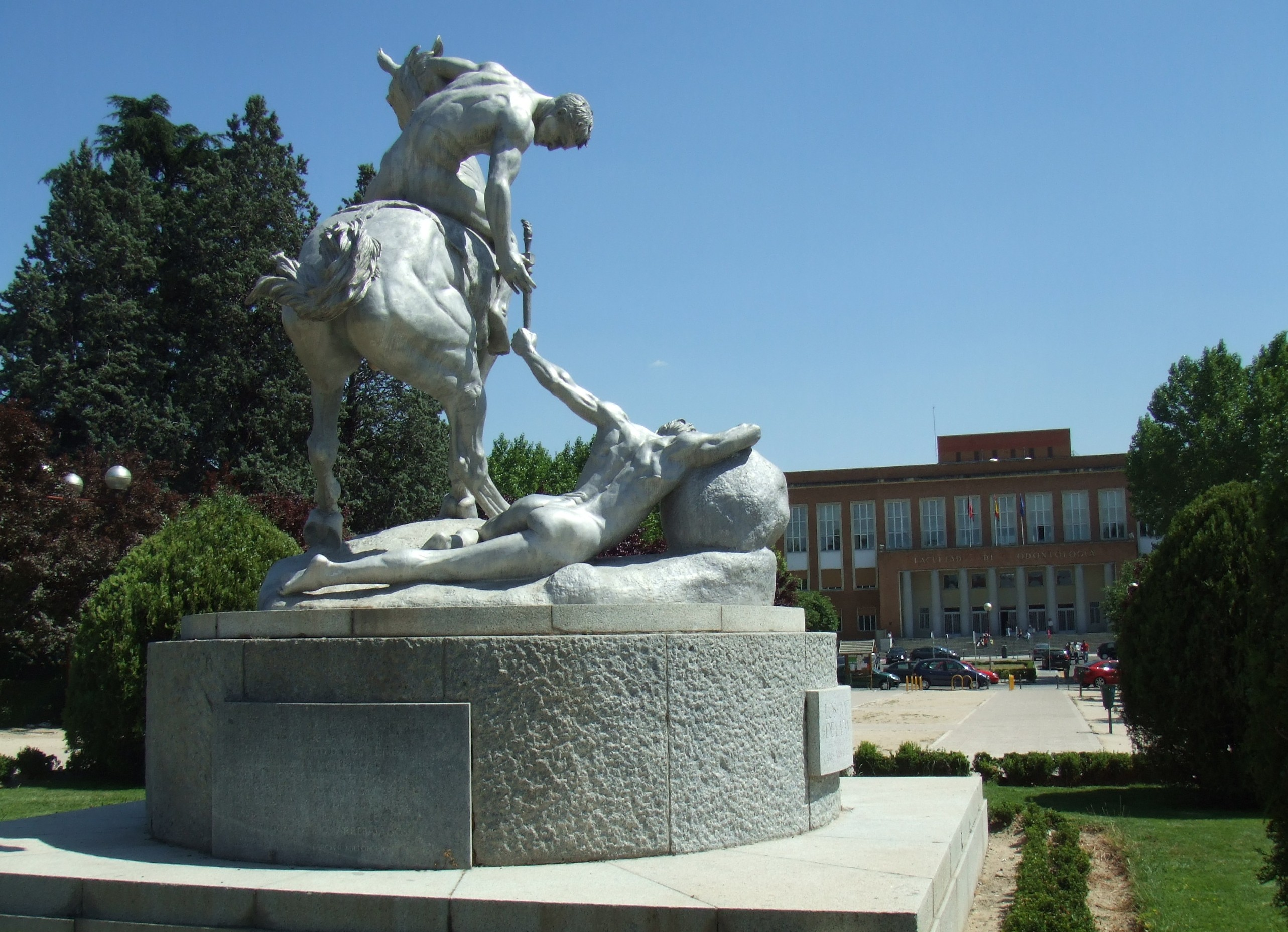 The Carriers of the Torch. Monument by Anna Hyatt Huntington. Plaza Ramón y Cajal. Complutense University of Madrid (Spain). Los Portadores de la Antorcha. Monumento de Anna Hyatt Huntington. Plaza Ramón y Cajal. Universidad Complutense de Madrid (España).